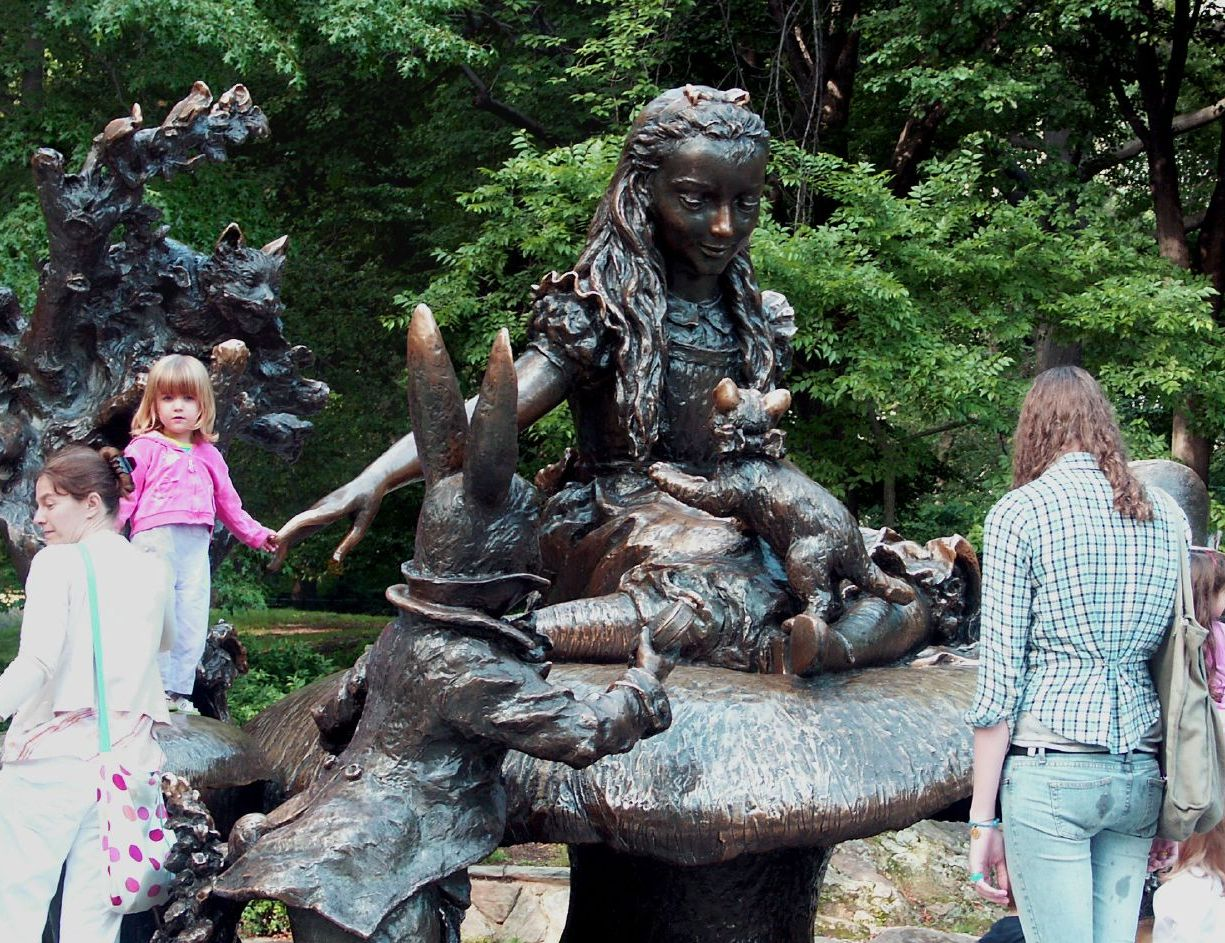 Alice in Wonderland sculpture by Jose de Creeft (1959), Central Park, NYC. Other title: Margaret Delacorte Memorial